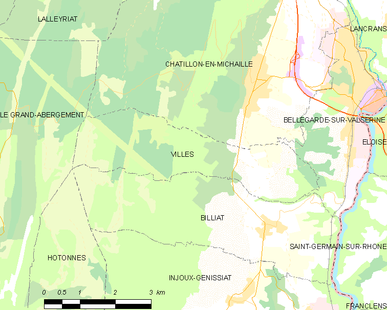 Map of French commune: Villes Map commune FR insee code 01448.png